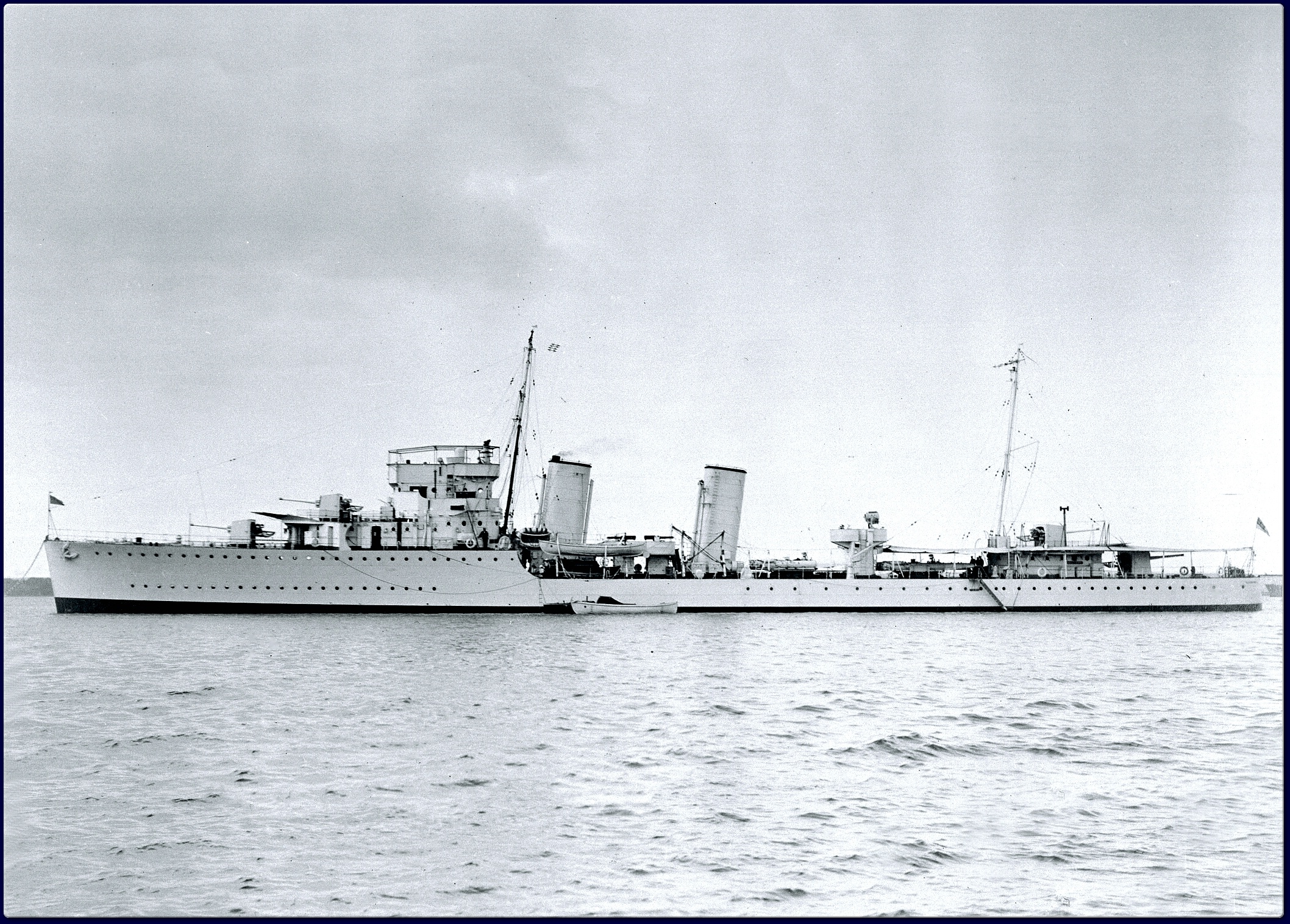 Photograph of Canadian destroyer HMCS Saguenay (D79).